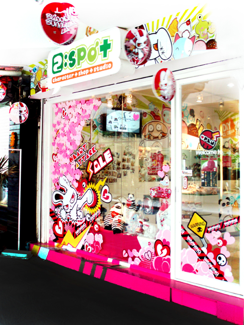 2Spot Communications Siam Square Shop